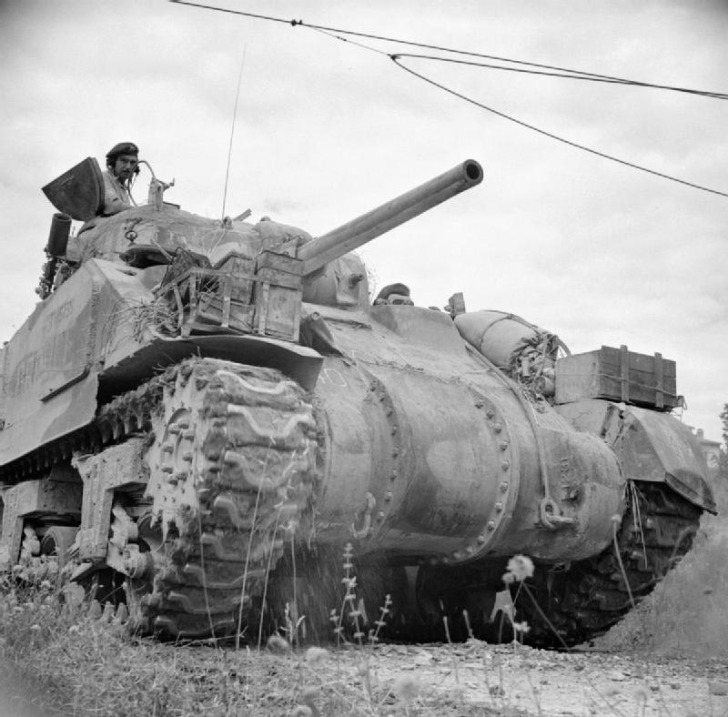 The British Army in Italy 1944 Sherman tank of 3rd Hussars, 9th Armoured Brigade, 7 July 1944.